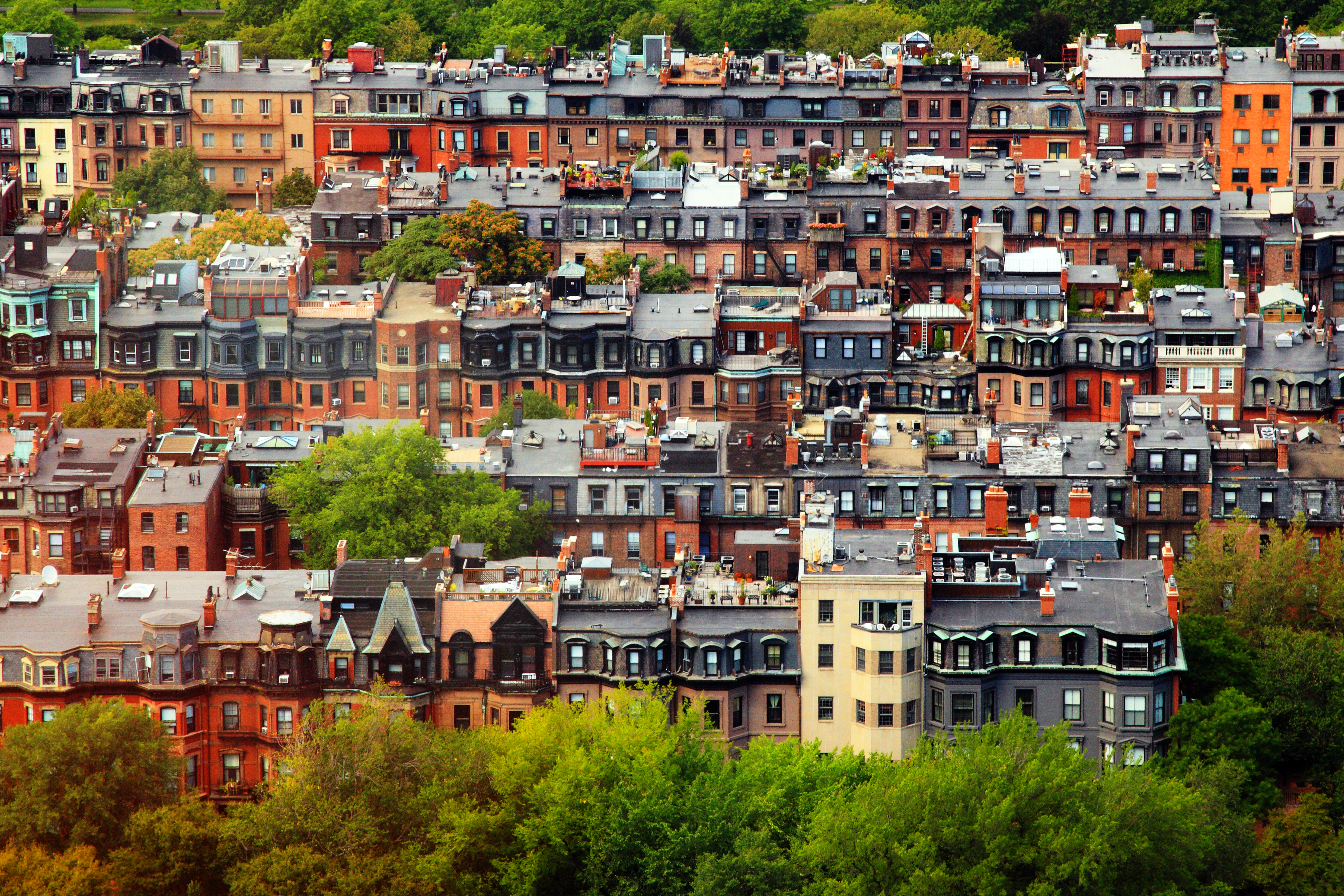 Detail of the Back Bay neighborhood of Boston, Massachusetts, photographed from the 33rd Floor of the Hancock Tower.